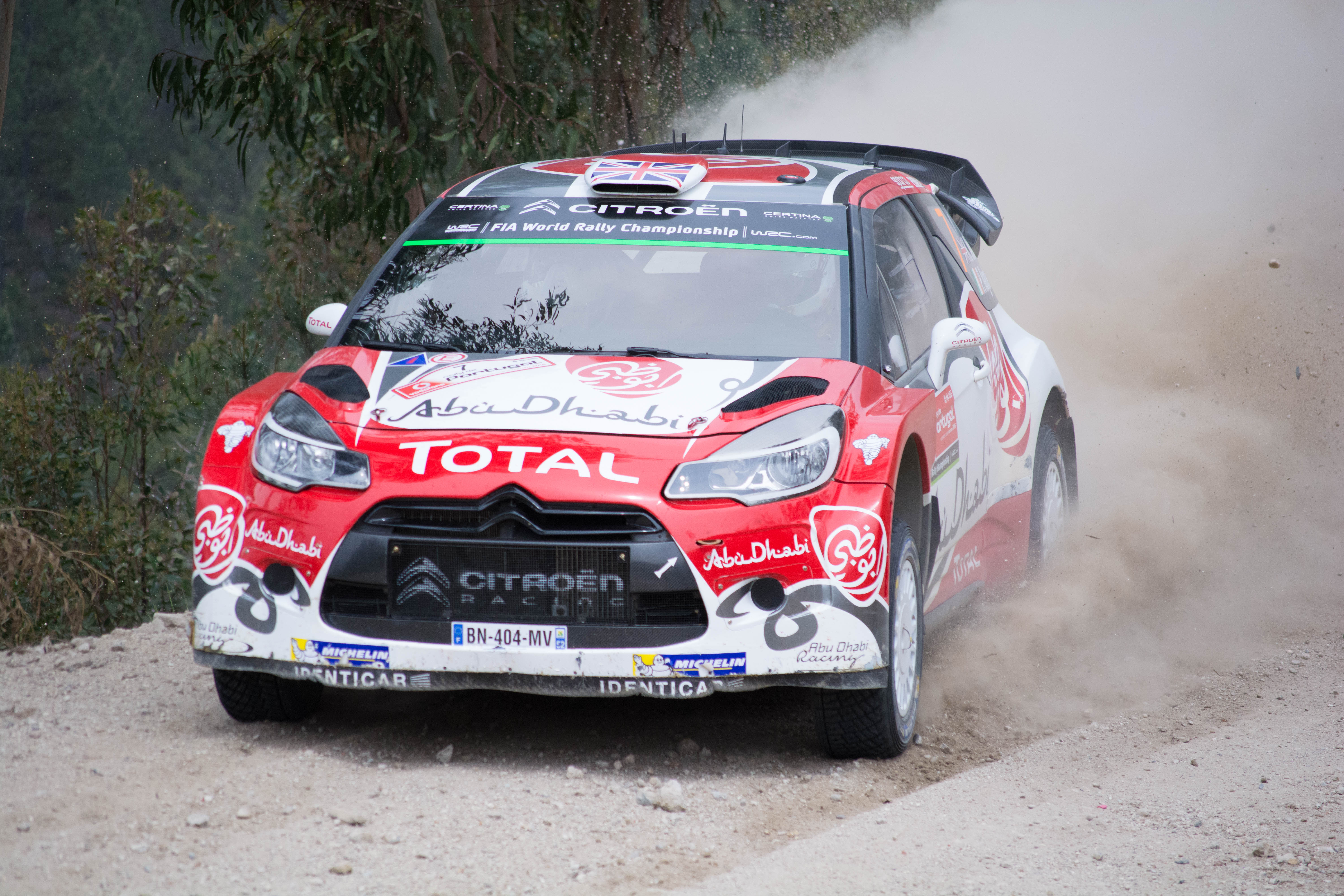 Rally of Portugal 2016. Section of "Amarante", on the first pass